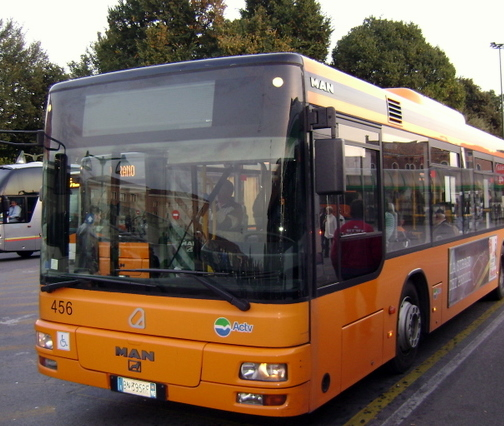 Autodromo bus (#456, reg. BN 395 PF) with MAN NG 313 chassis in Venice, Italy. Built 2000, ACTV from Venice operator.